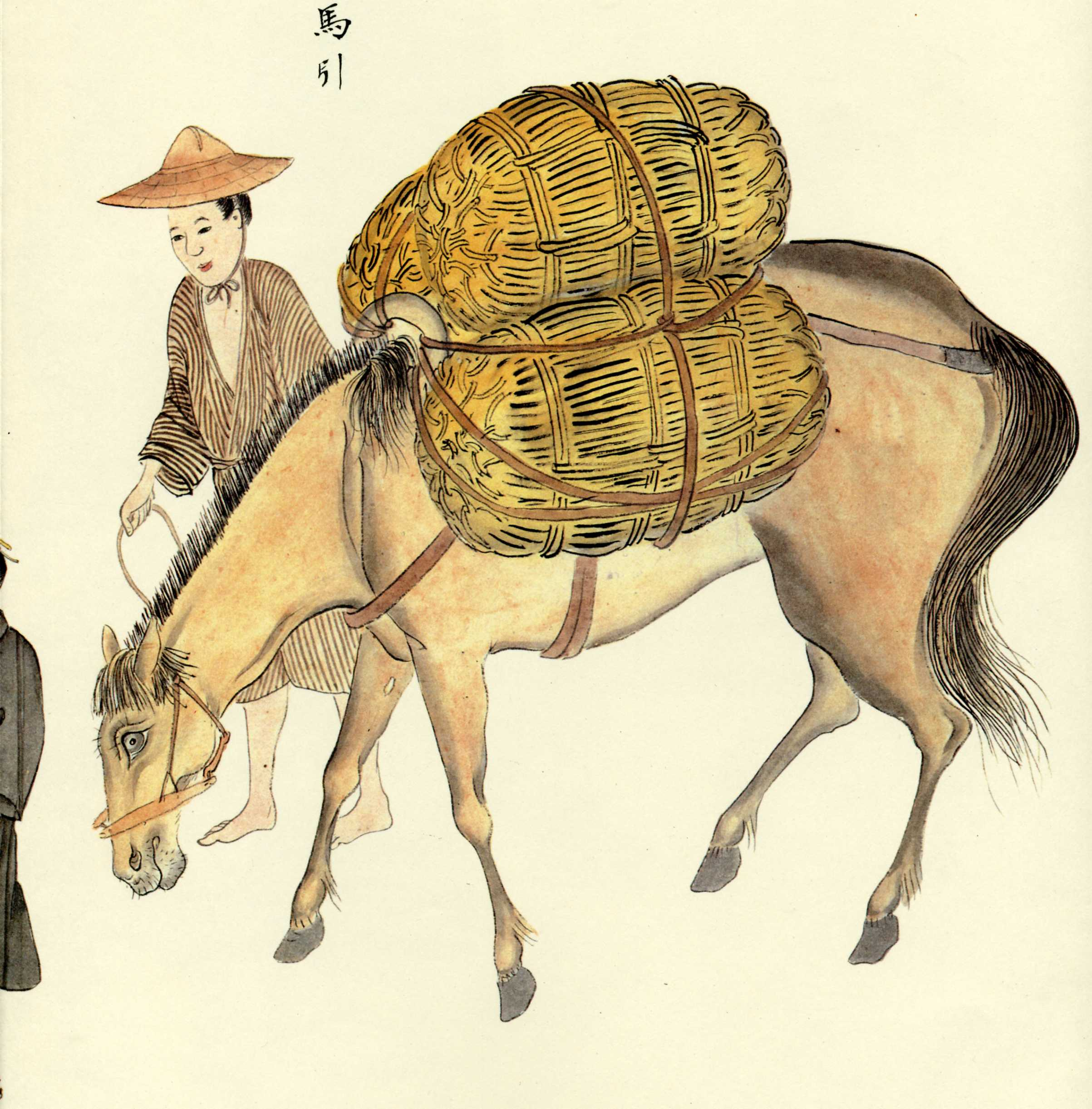 Okinawan horse bit "Muge" from the book "Ryukyu Fuzoku Ezu"